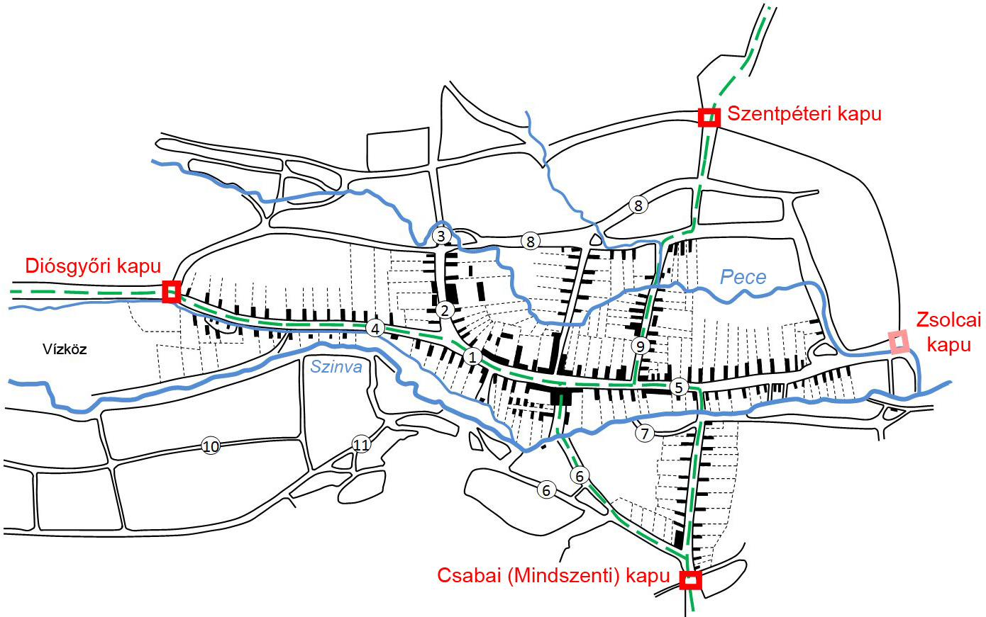 Topography of Miskolc in 16–17. century (after Éva Gyulai)